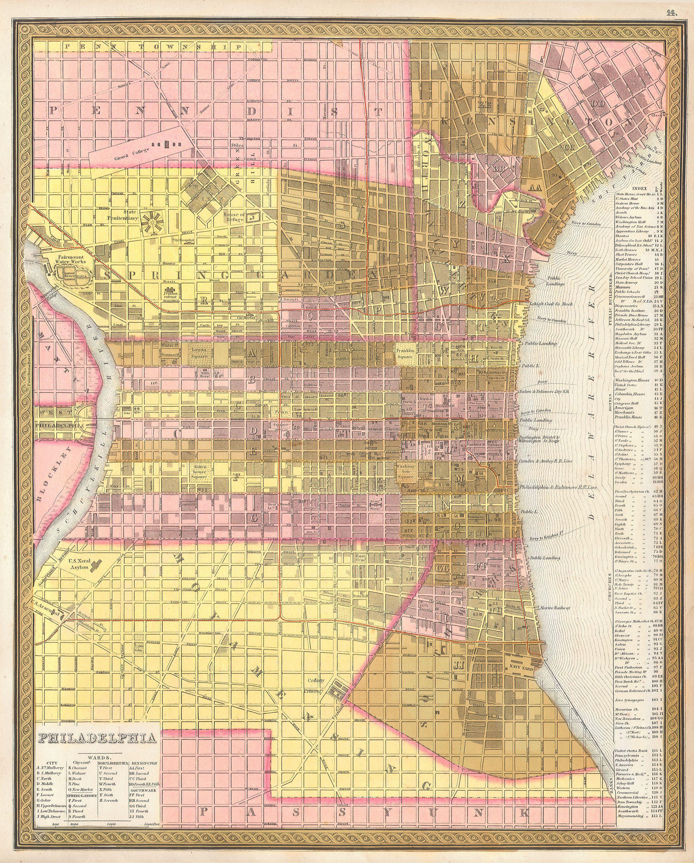 This scarce hand colored map is a lithographic plan or map of Philadelphia dating to 1846 by the legendary American Mapmaker S.A. Mitchell, the elder. Depicts the entire city in stupendous detail with even important buildings, streets, piers, and canals drawn in. This is a rare transitional map produced by the mysterious engraver H. N. Burroughs, whose work for the Mitchell firm appears in 1846 between that of H.S. Tanner and Mitchell himself. Ristow notes, Nothing is known about Burroughs, but he was undoubtedly an employee or associate of Mitchell. His fine and detailed work appears only in the hard to find 1846 edition of the Mitchell’s Atlas and evinces a more delicate hand than later editions. Dated and copyrighted 1846.